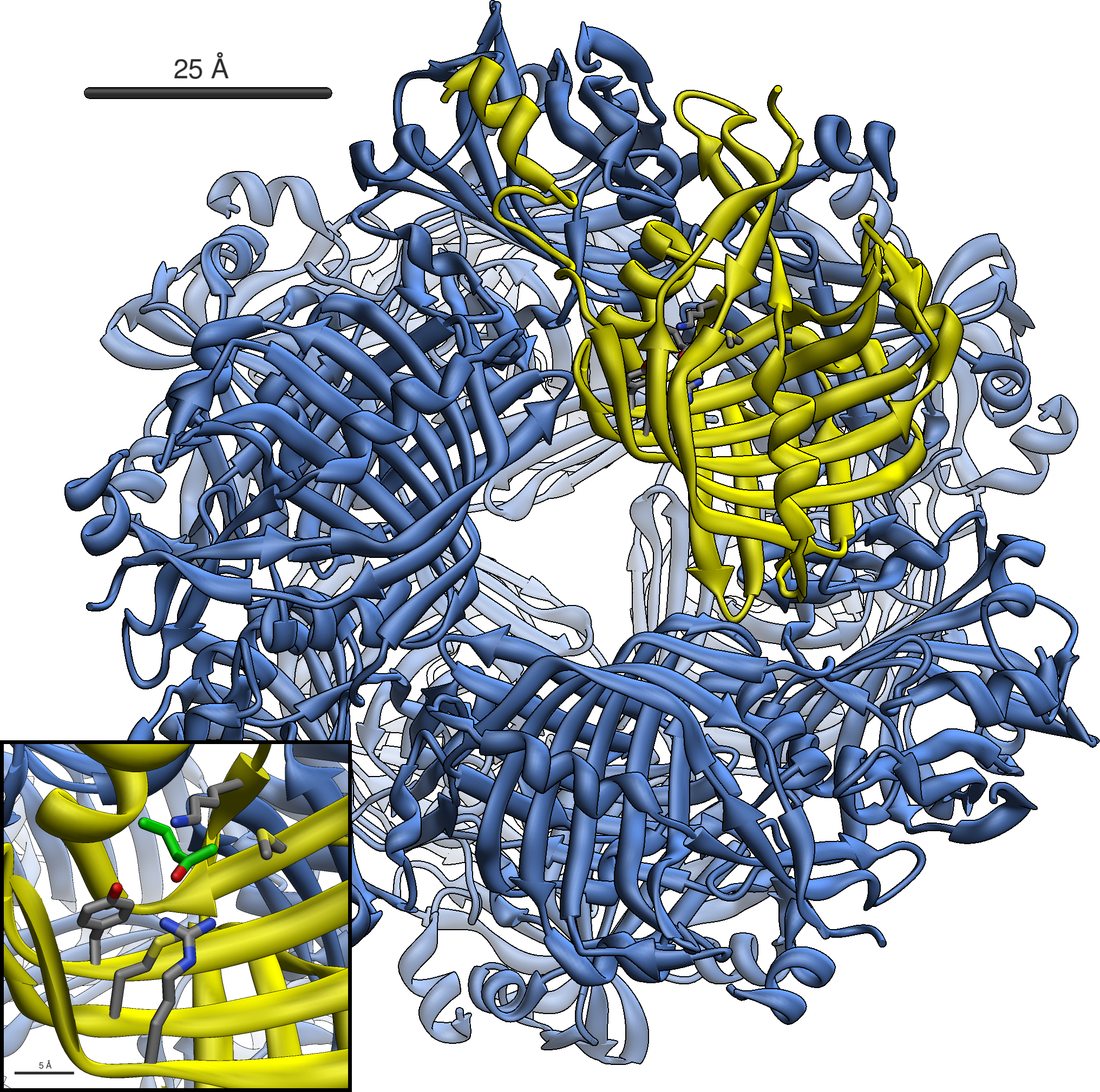 Acetoacetate decarboxylase dodecamer structure with bound w:2-Pentanone bound in its active sites is shown. There are 12 subunits in the structure; a single subunit is colored yellow for context. Inset (bottom right) shows bound 2-pentanone molecule (green) coordinated by nearby amino acid side chains.